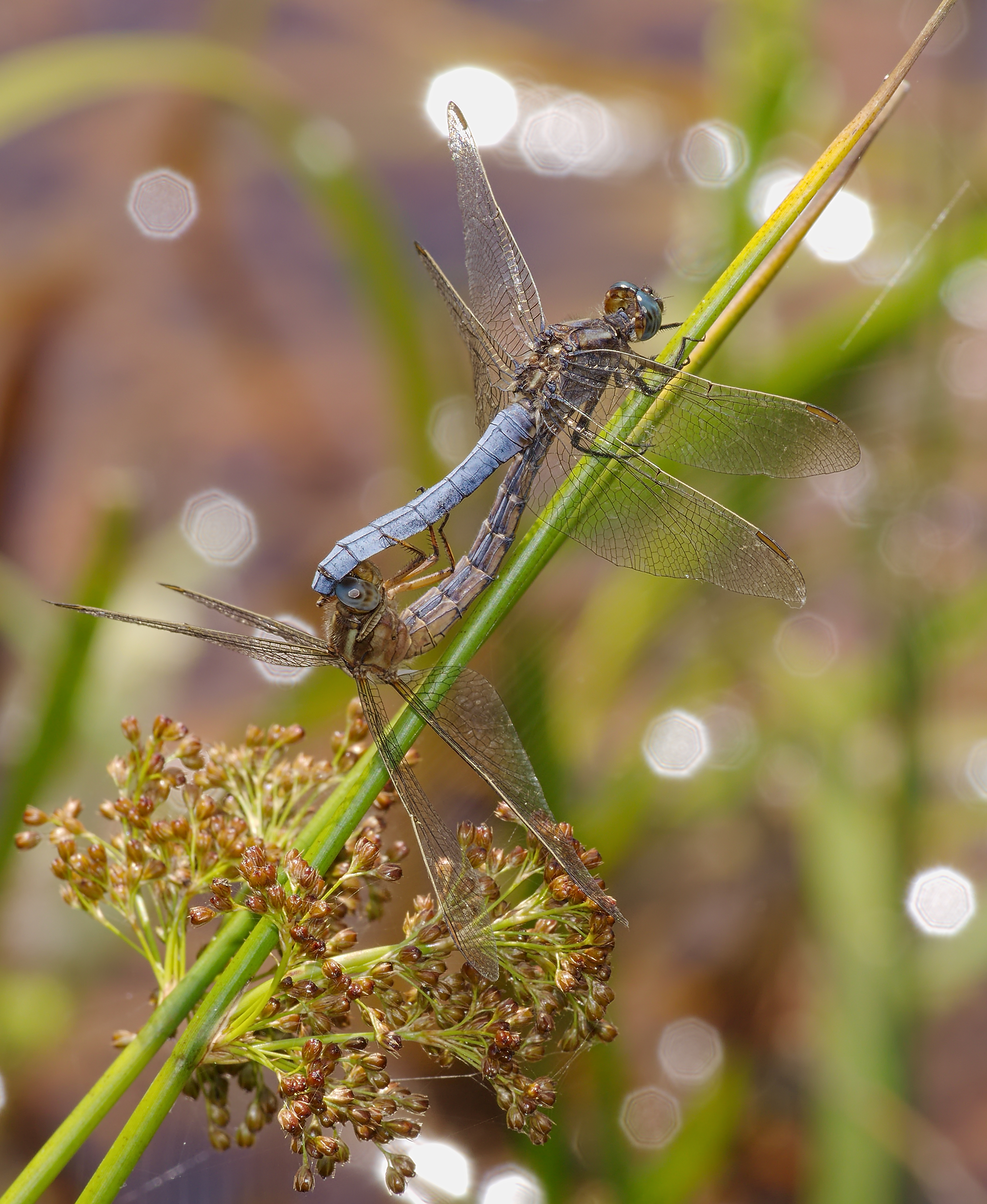 Keeled skimmer - Orthetrum coerulescens, couple. Taken by the Schwarzbach in Wöllnau, Doberschütz, Saxony, Germany.